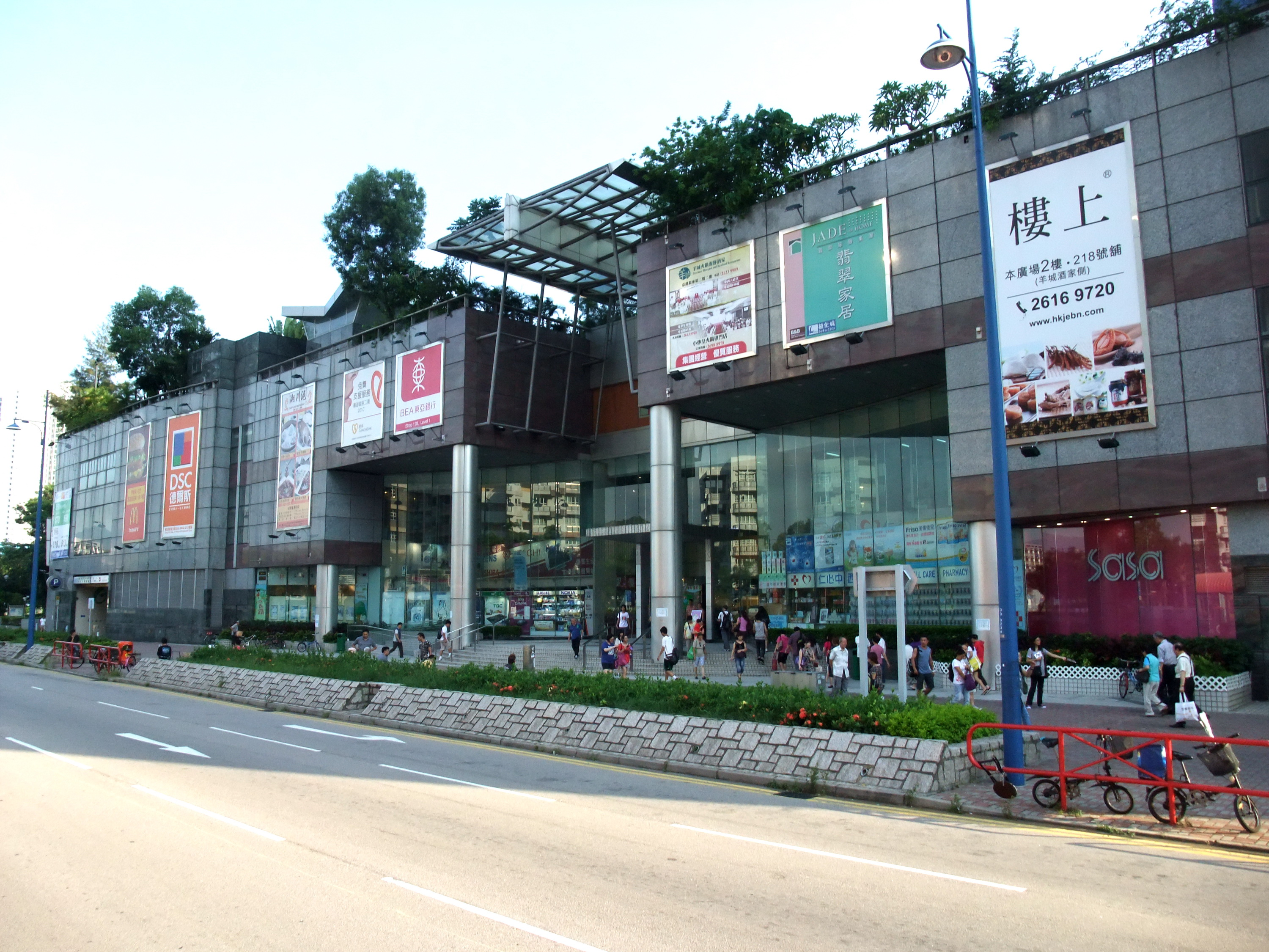 Kingswood Ginza Phase 2 at Tin Shui Wai New Town, Hong Kong.